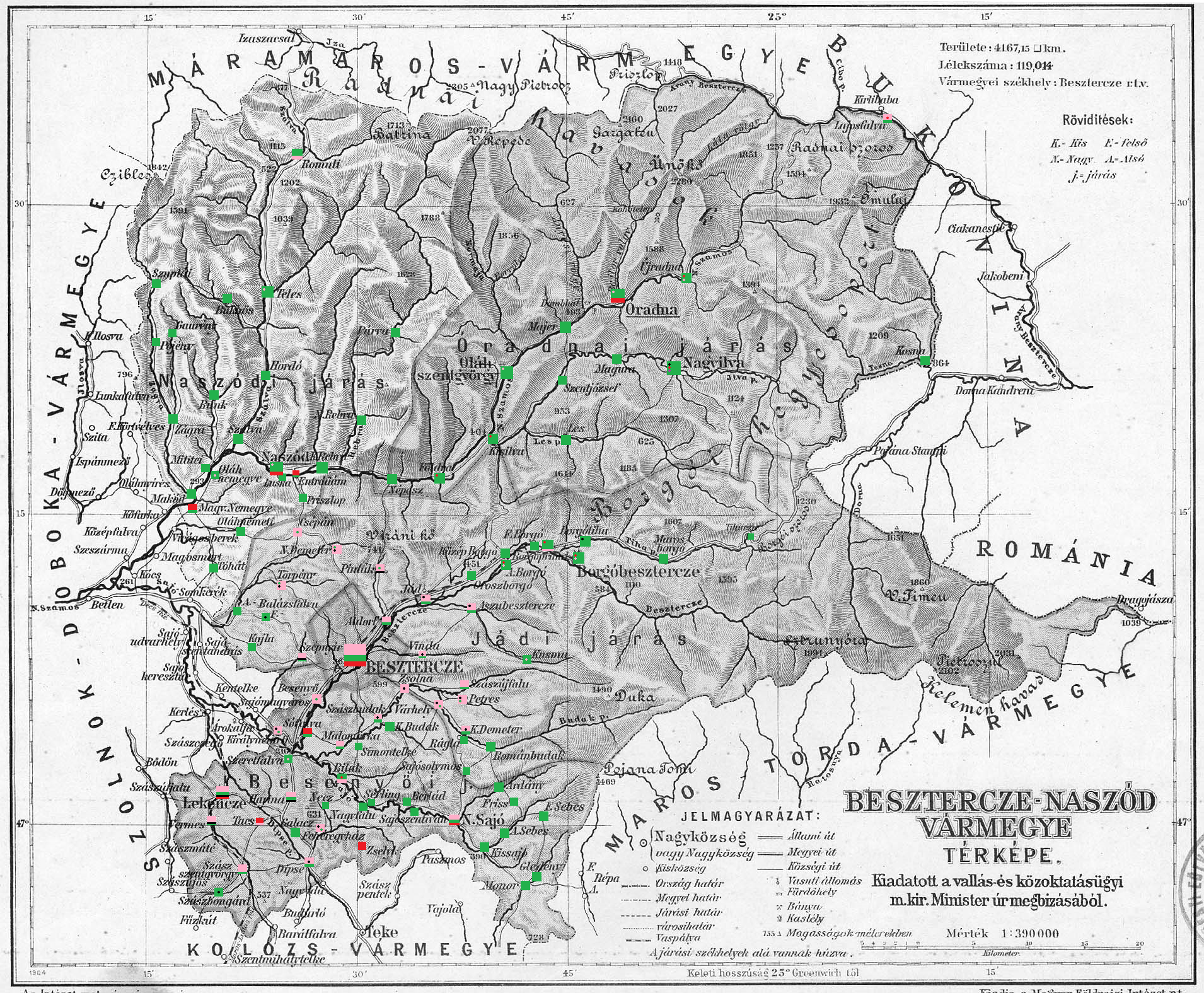 Ethnic map of the county (with data of the 1910 census). Key: dark green - Romanians; pink - Germans; red - Hungarians; black - Roma; violet - Ruthenians. Coloured dots in plain rectangles imply the presence of smaller minority populations (generally more than 100 people or 10%). Multicoloured rectangles imply cities and villages with multi-ethnic populations with the order of the stripes following the ethnic composition of the settlement.